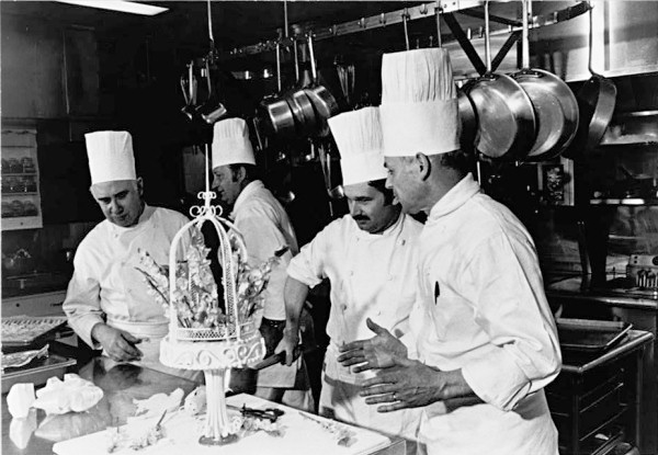 Assistant chef Heinz Bender (left), assistant chef Hans Raffert (second from left), pastry chef Maurice Bonte (second from right), and Executive Chef Henry Haller (right) work on the wedding cake for David Cox and Patricia Nixon, daughter of President Richard Nixon, in the White House kitchen at the White House on June 12, 1971.